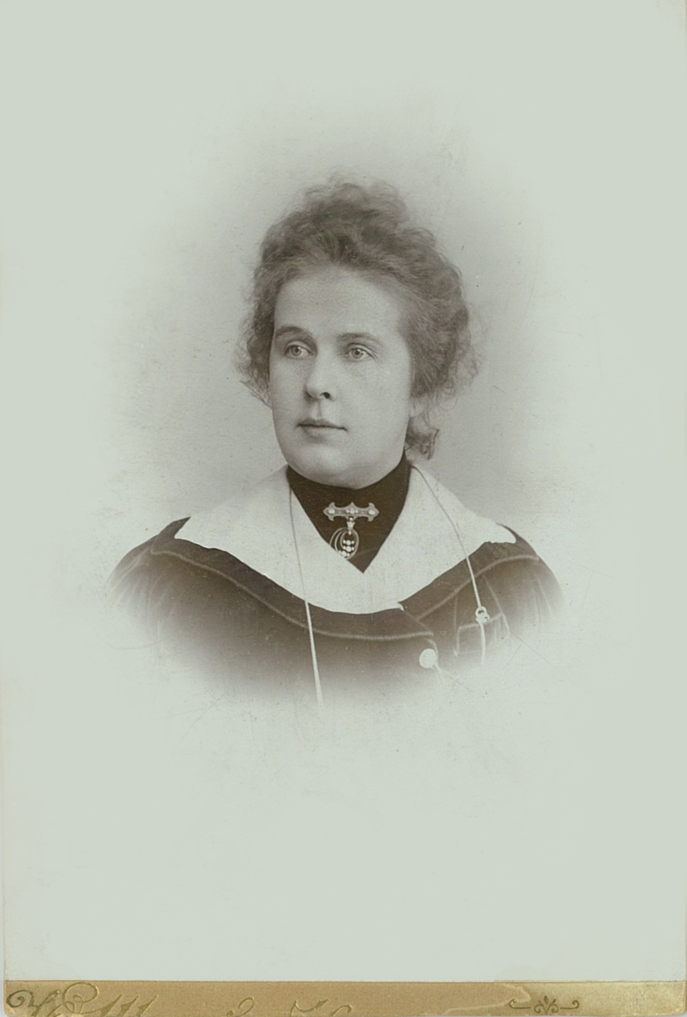 Татьяна Фёдоровна Склифосовская. 1900-е